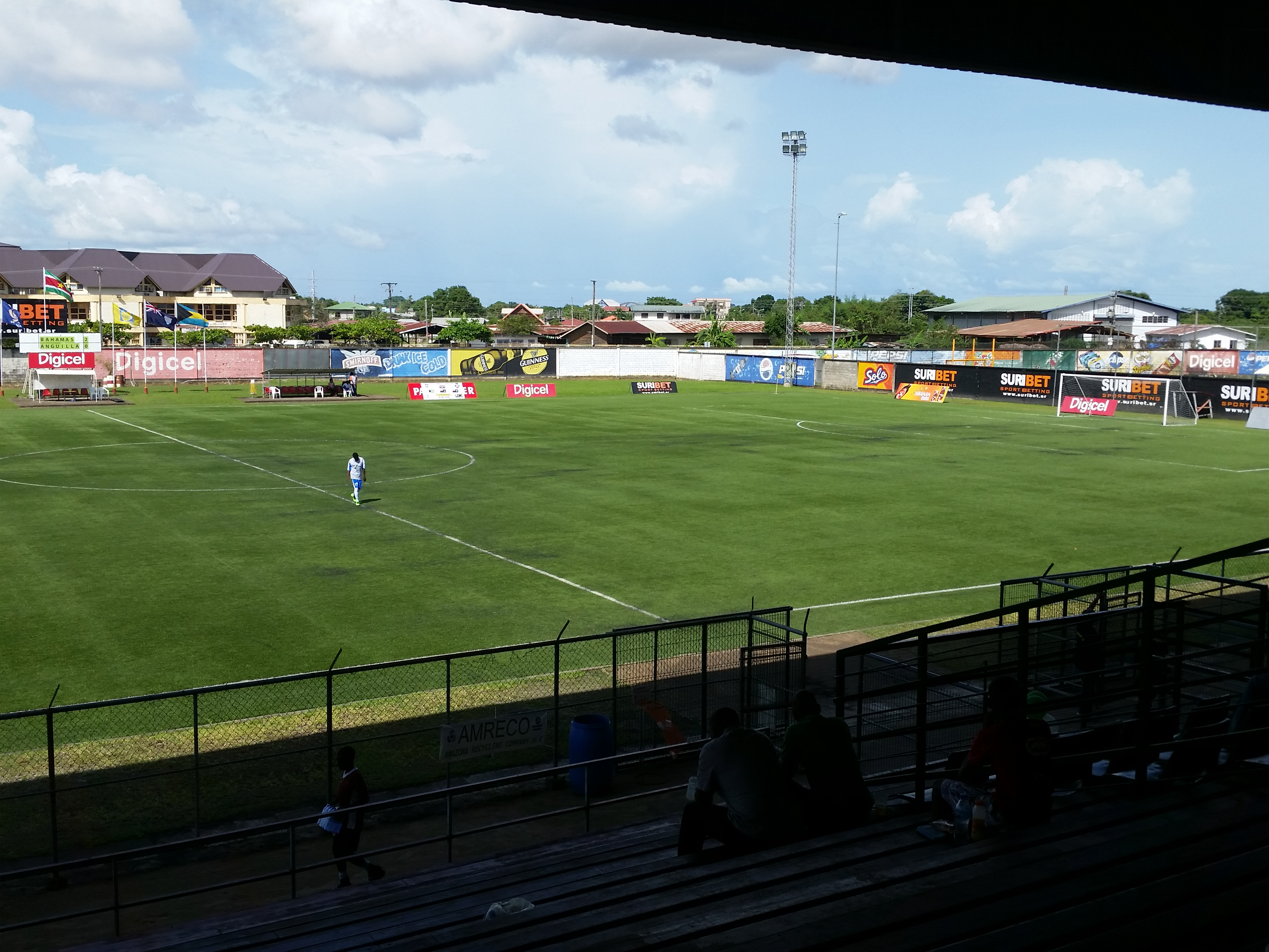 Essed Stadion